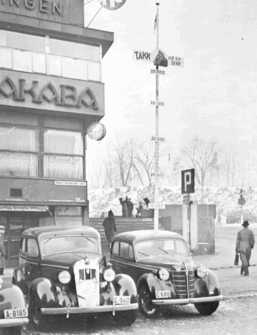 Collection of backpacks for the Finnish cause, January 1940.